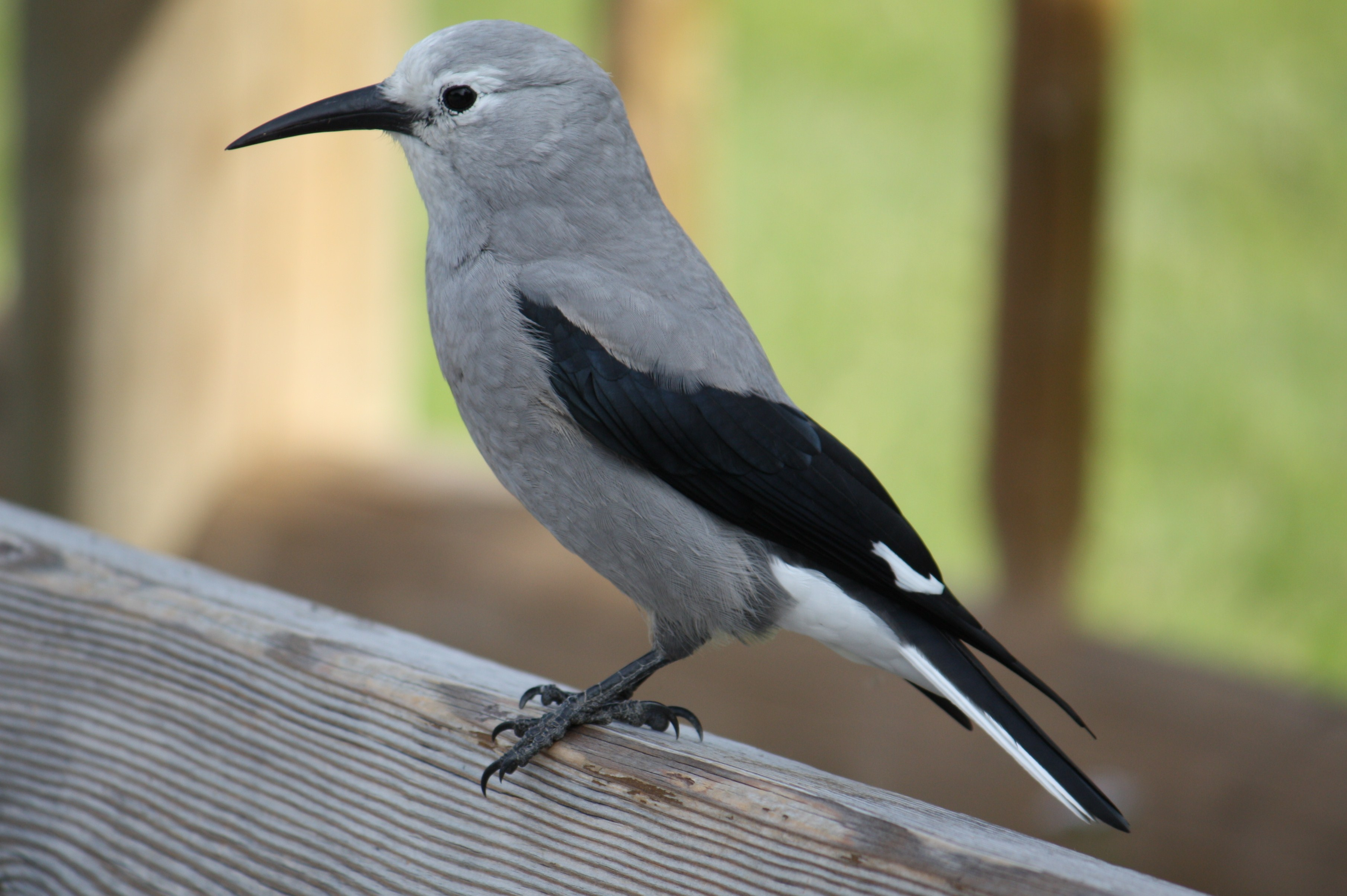 Clark's Nutcracker in Banff National Park, in 1885 in the Rocky Mountains, Canada.